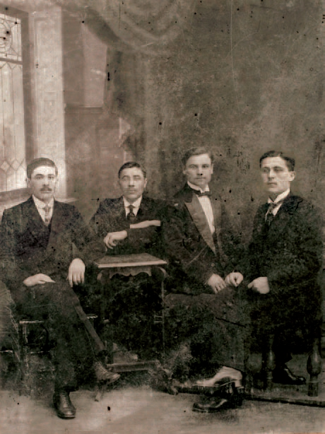 Plant masters of Donetsk-Yurevsk metallurgical company (DYMC; 1914)